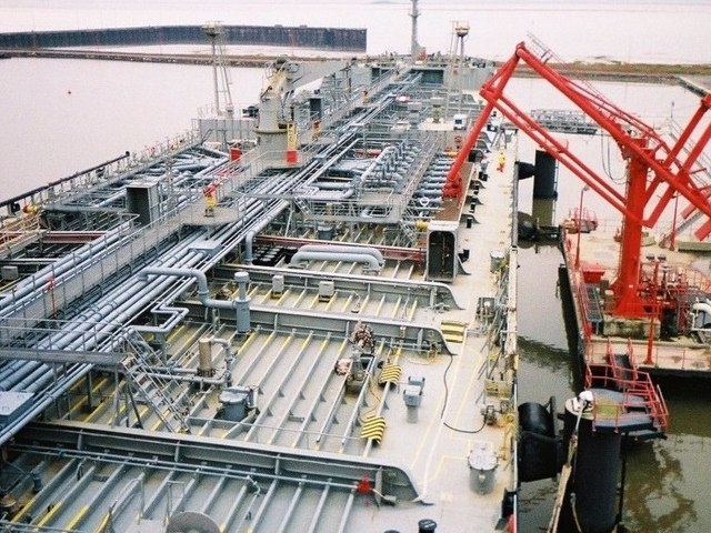 TORM VITA at Royal Portbury Dock, near to Sheepway, North Somerset, Great Britain. TORM VITA was discharging jet fuel when the photo was taken.